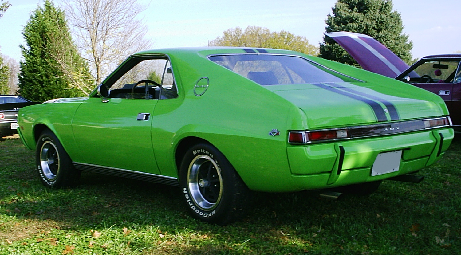 1969 AMX by American Motors Corporation (AMC) two-seat sport coupe. Big Bad Green paint (code P4) with black stripes. This car has the optional 390 "Go Package" that included the 390 cu in (6.4 L) 315 hp (235 kW) V8 engine, racing stripes, power disk brakes, Twin-Grip differential, and other high-performance components. The wheels are correct for the year.